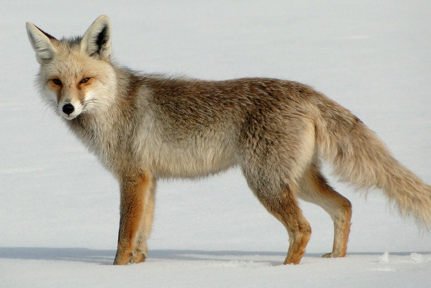 Following a severe winter, I photographed this fox in Golbasi, Ankara. It must have been used to seeing humans or very hungry, since it didn't run away and literally posed.